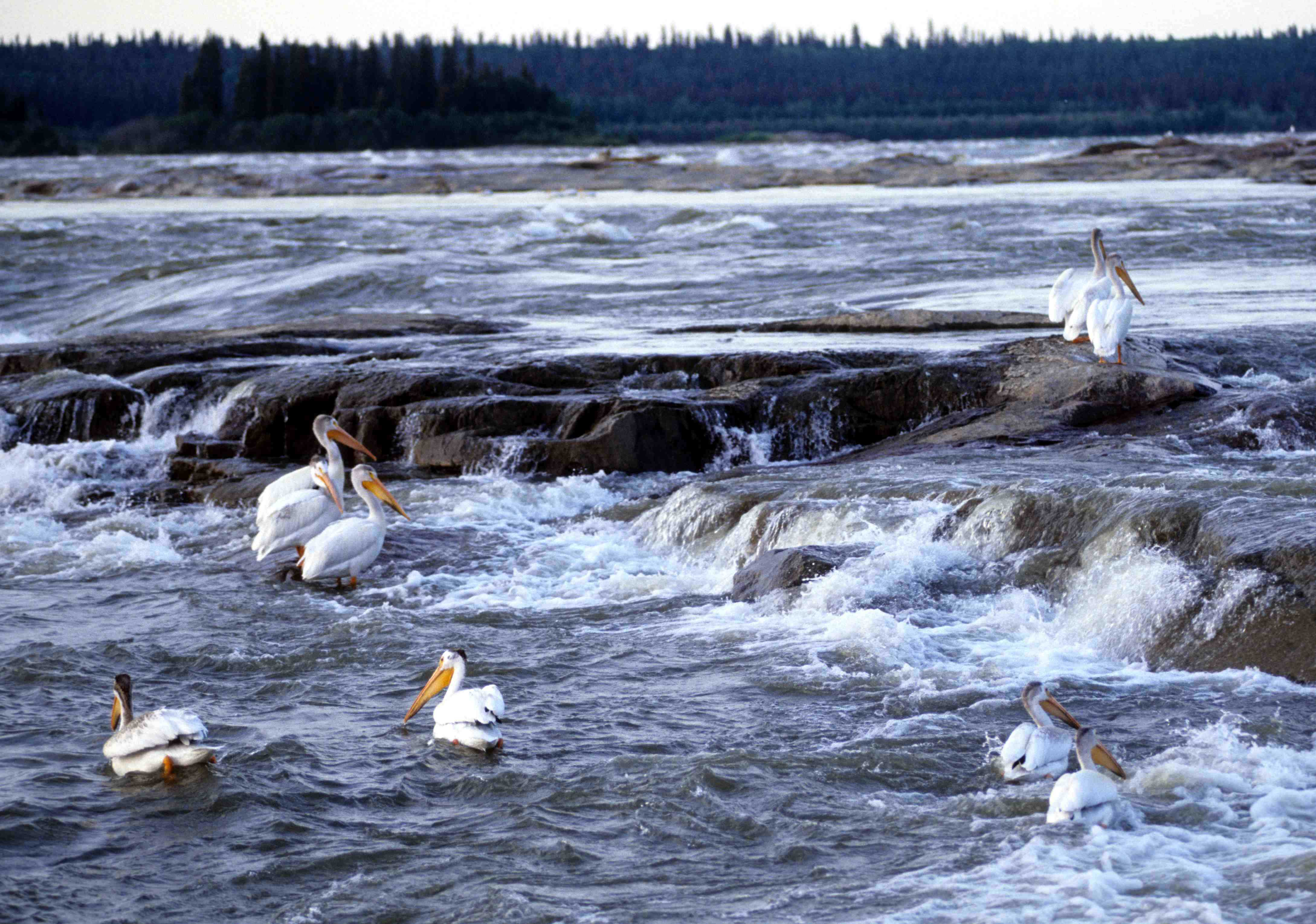 American White Pelicans (Pelecanus erythrorhynchos, Nashornpelikan) from Rapids of the Drowned (Slave River near Fort Smith, NT, Canada)